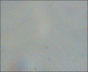 Microphotograph of the groove in a CD-R disk. Photo by User:Janke